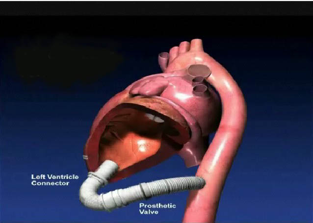 Rendering of a typical Aortic Valve Bypass installation showing a cutaway Left Ventricle